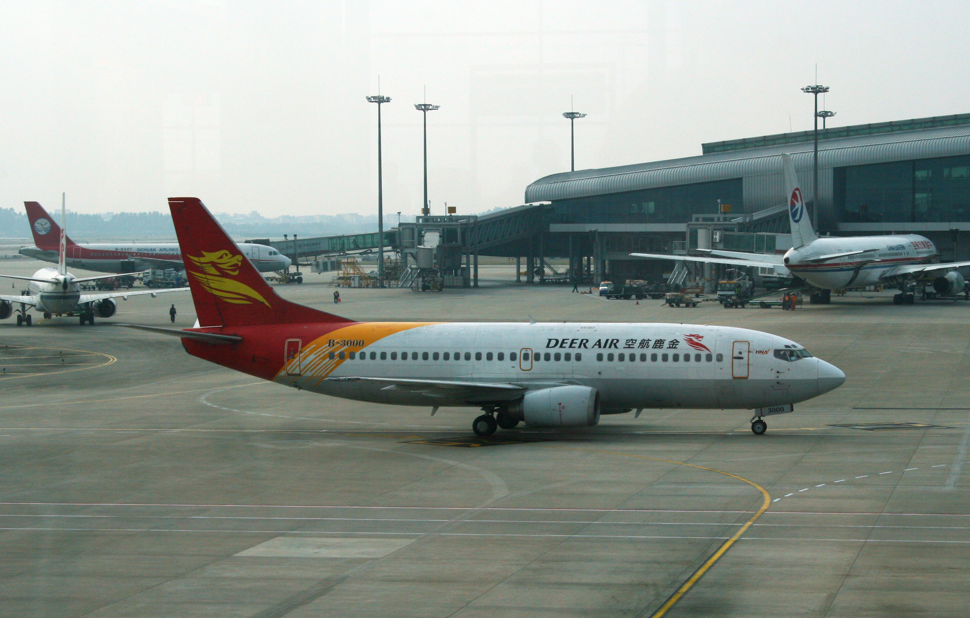 A plane of Deer Air in Guangzhou Baiyun International Airport (CAN)